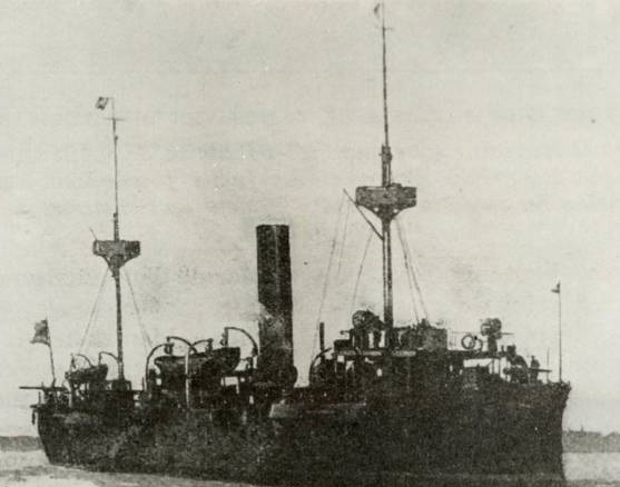 The Romanian protected cruiser Elisabeta sometime between her 1905 refit (note the missing middle mast) and 1916, when she was stripped of her main armament (which is present in the picture)